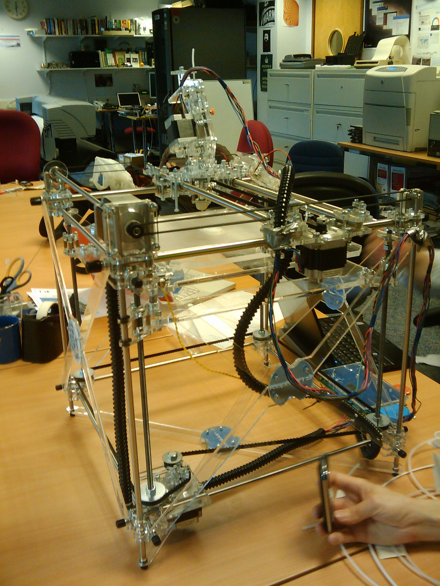 Repstrap